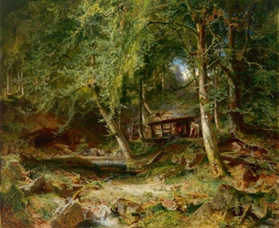 A Forest Blacksmith's Shop (1864)